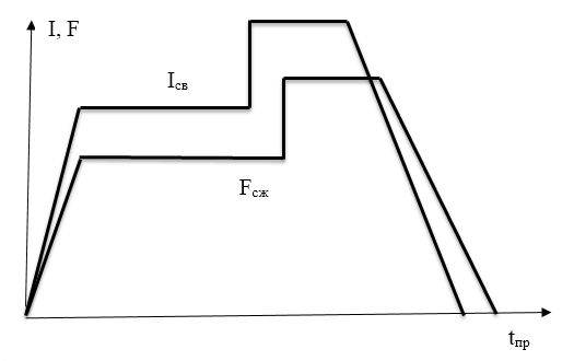 Циклограмма стыковрой сварки с прерывистым оплавлением